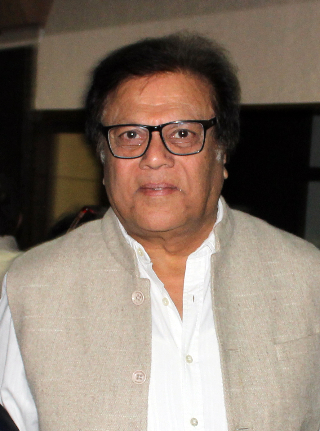 At Ravindra Bhavan Bhopal Dec 2015 for Chankya - Play